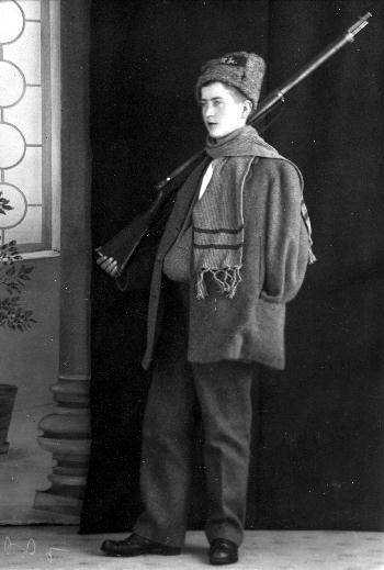 Red soldier